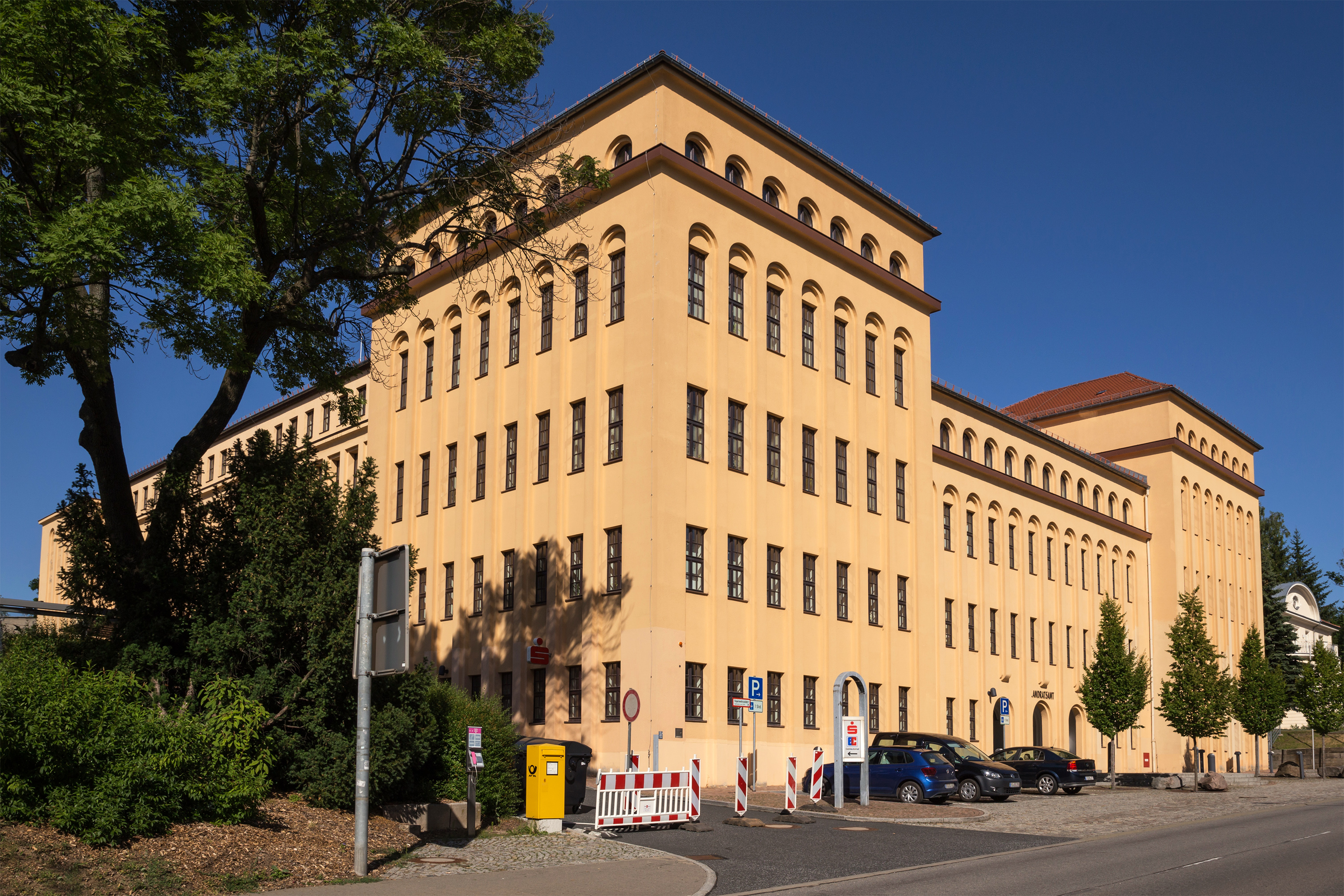 Freiberg, District Office, Frauensteiner Straße 43, cultural heritage monument